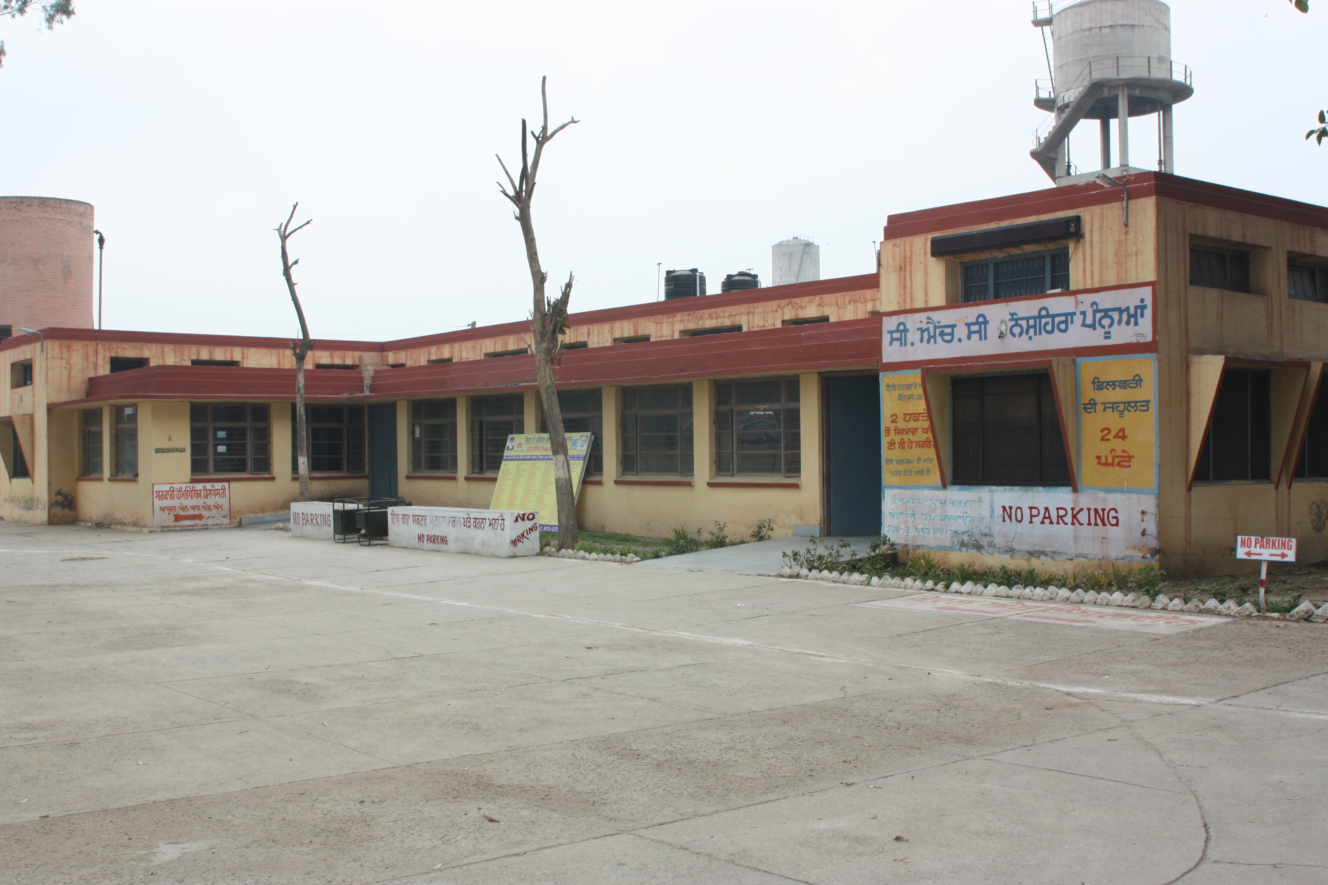 Hospital